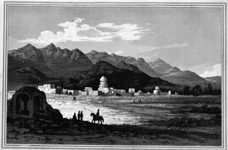 Hand aquatint from the "A journey from India to England, through Persia, Georgia, Russia, Poland, and Prussia, in the year 1817" by Lieut. Col. John Johnson (1768 — 1846). Engraved by Theodore Henry Adolphus Fielding (1781 – 1851)